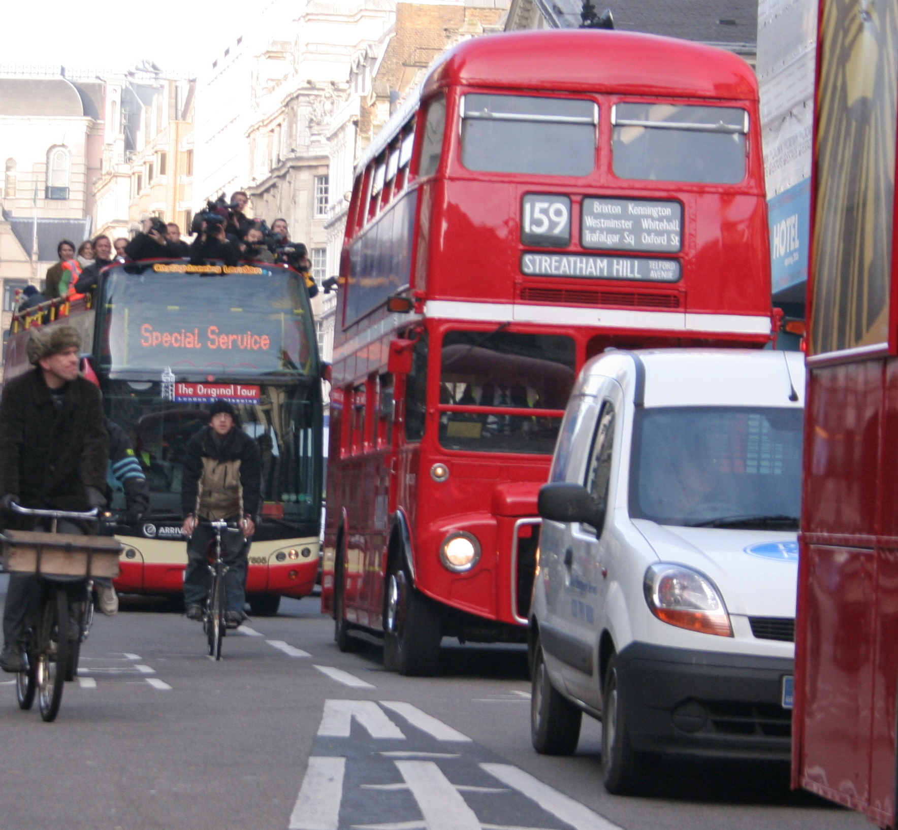 Arriva London special purposes fleet Routemaster bus RM2217 (reg. CUV 217C), operating London Buses route 159 on the last day of non-heritage Routemaster operation in London. As part of the special fleet, RM2217 was chosen to operate the official last Routemaster journey on the day, preceeded by two duplicates, operated by red RM5 and gold RM6 also drawn from the special fleet. This last service was to be a run from Marble Arch to Streatham Hill, Telford Avenue, a short working of route 159 terminating at the last stop before Arriva's Brixton bus garage, rather than the usual terminus of Streatham Station. With RM5 and then RM6 leaving a few minutes ahead of it, RM2217 was due to leave at 12.10. It's pictured here operating the last service, heading south near the end of Haymarket in Westminster. As the last ever bus, it was being trailed by Arriva's open top bus VLY605 (reg. LX05 HRO) from their Original Tour fleet, carrying members of the media.